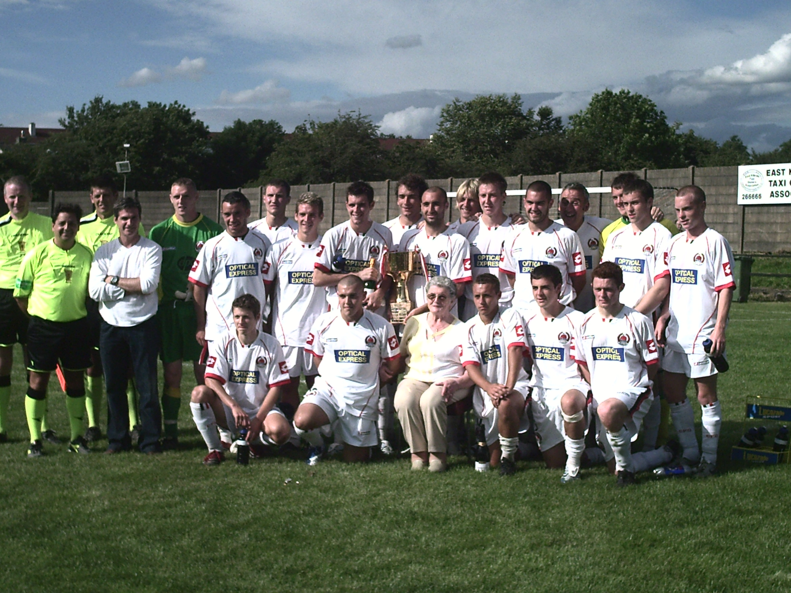 My own image, taken when Clyde won the EK Cup